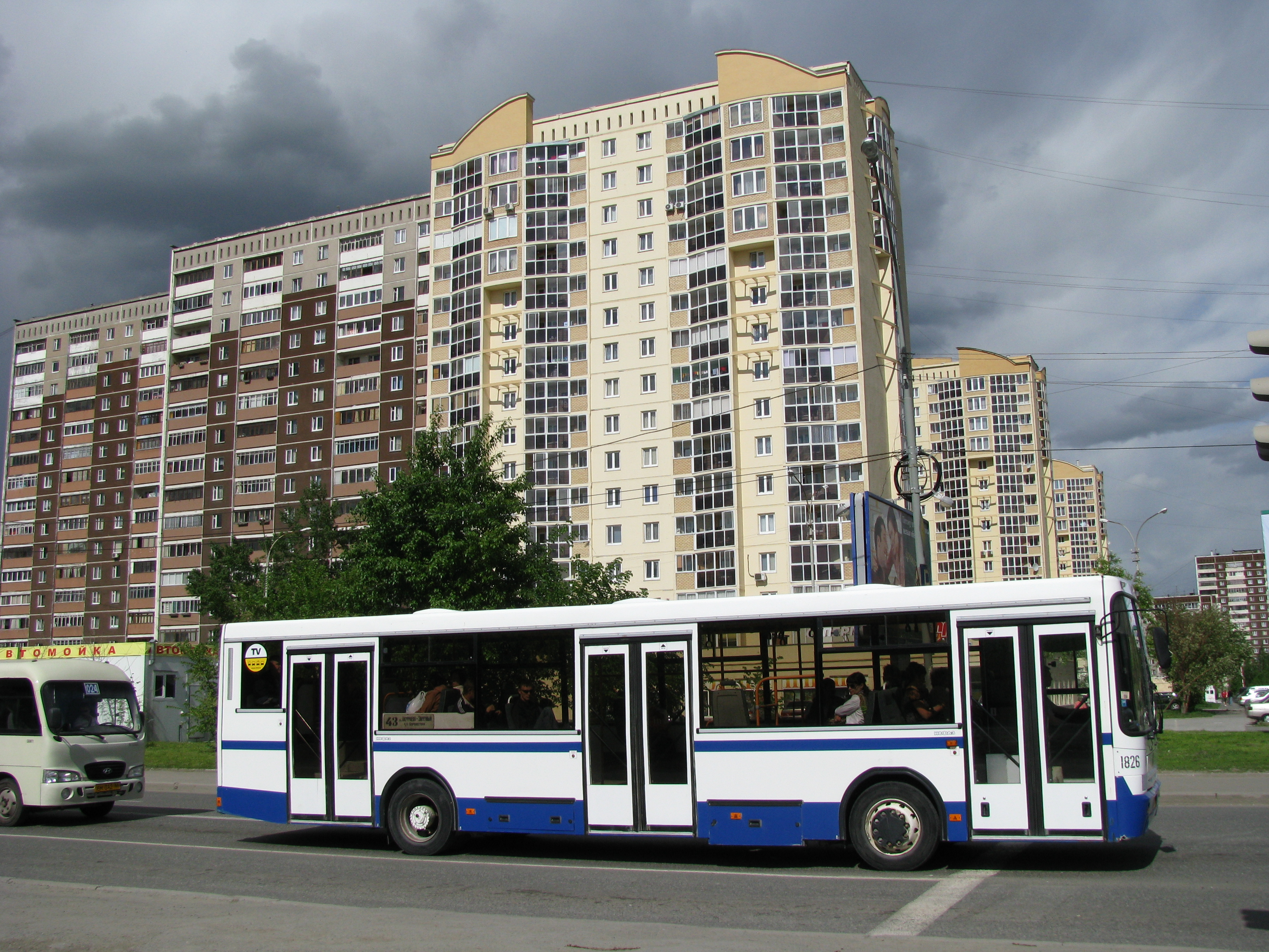 NefAZ bus (#1826) in Yekaterinburg, Russia.